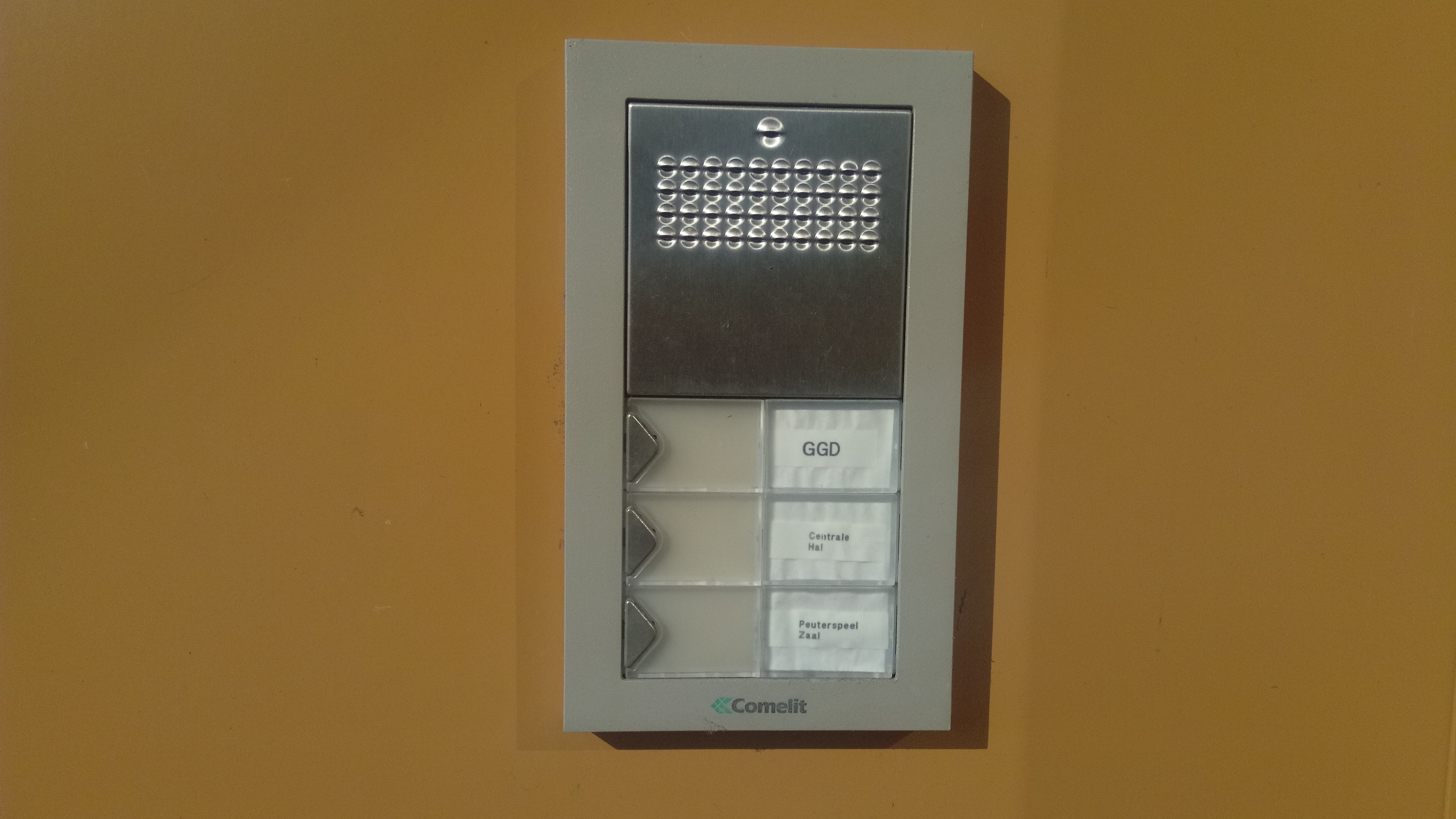 Doorbells of the De Groenling schools in the Groninger village of Oude Pekela.